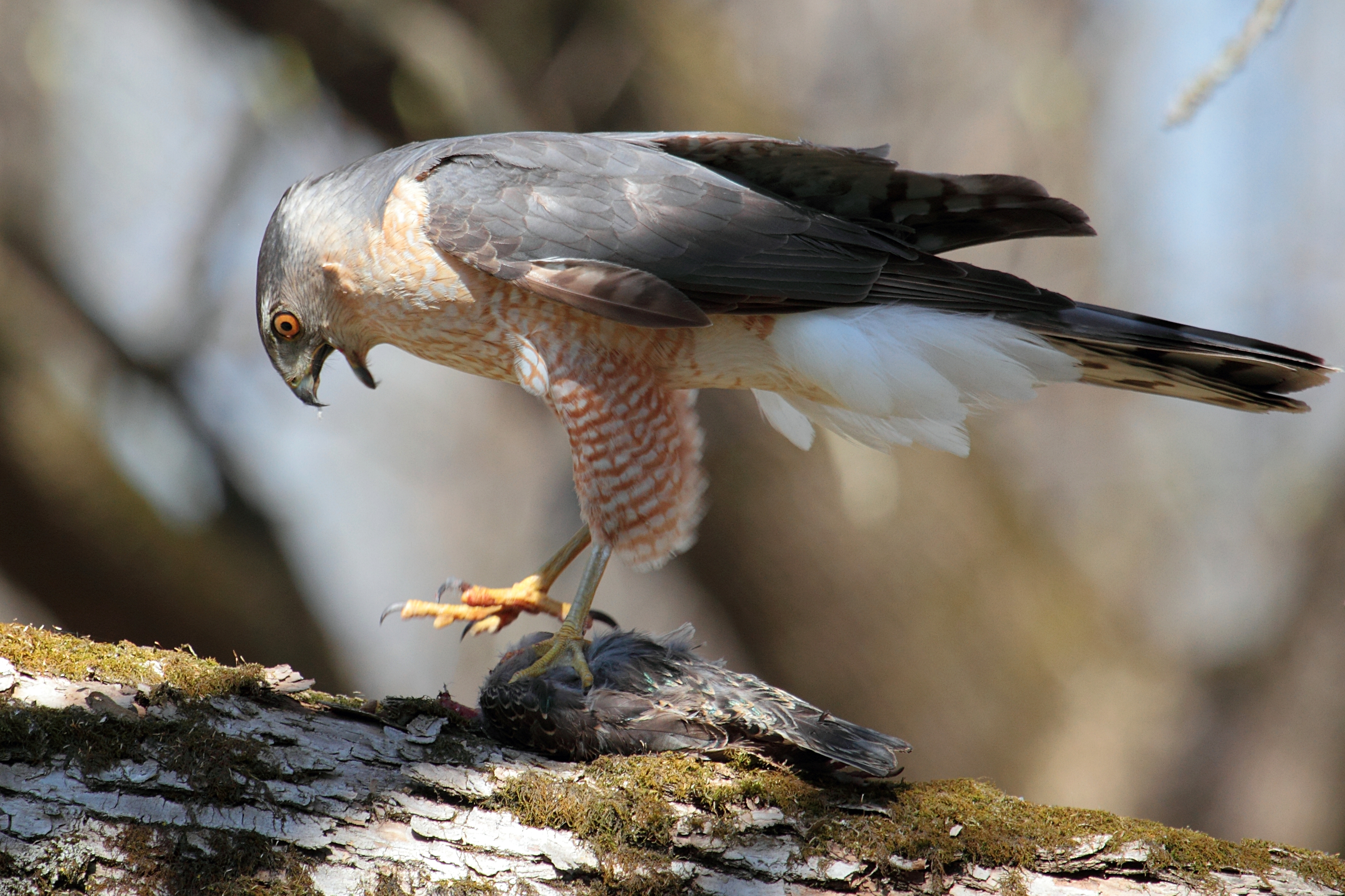 Cooper's Hawk with a prey (Starling), Domaine Maizerets, Quebec City, Canada